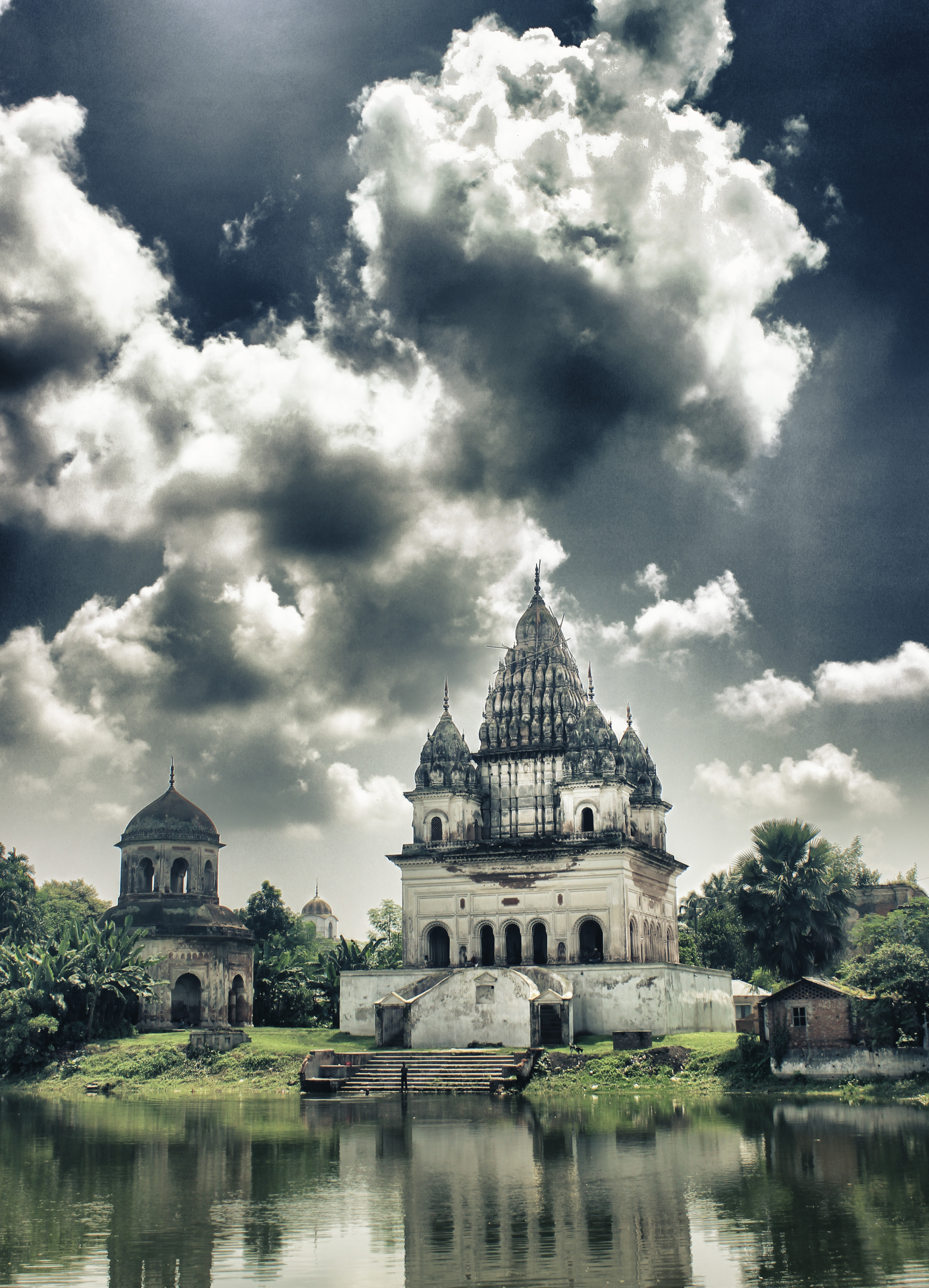 This temple situated in Puthia Bazar of Rajshahi District. It was built on a hing plinth on the southern bank of a large tank. The temple is a 19.81 meter square building and total height is 35.03 meter. It is a Pancha Ratna type building consists of a Garbhagriha and a surrounding verandah. Rani Bhubanmoye Debi built this temple in 1823 AD.